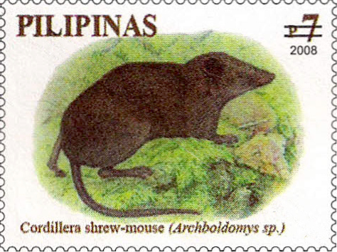 Cordillera Shrew-mouse (Archboldomys kalinga)